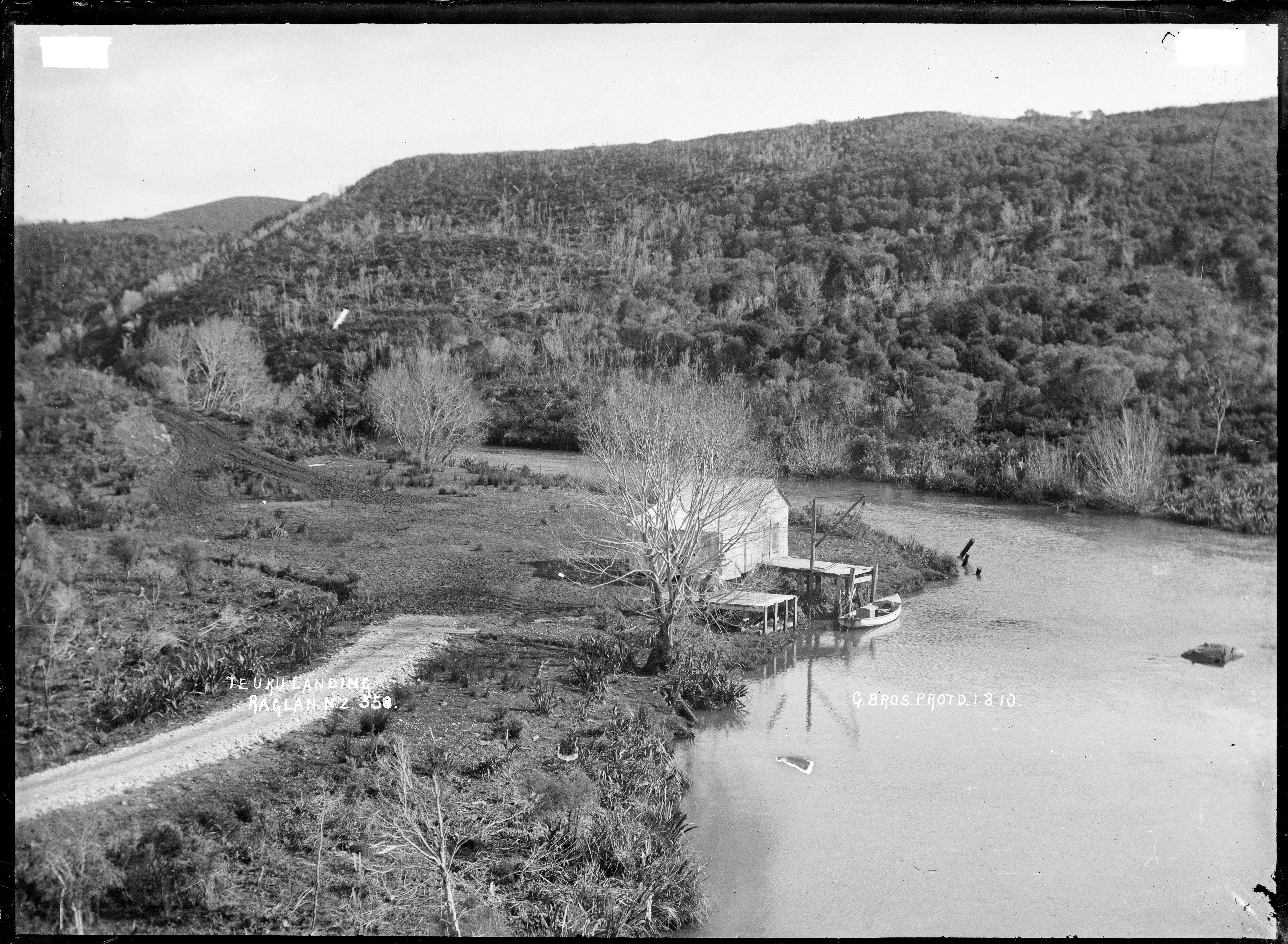 View of a small building with a landing wharf, and a small launch moored at the Landing. Te Uku Landing was the only method of access from Raglan to Te Uku. The road from the landing to Te Uku itself is clear in the lower left of the image. Taken 1 August 1910 by 'G Bros', probably Gilmour Brothers of Raglan. Inscriptions: Inscribed - Photographer's title on negative -bottom left: Te Uku Landing. Raglan. N.Z. 350.bottom right: G. Bros Protd 1.8.10. Quantity: 1 b&w original negative(s). Physical Description: Dry plate glass negative 4.5 x 6.5 inches Gilmour Brothers (Firm). Te Uku Landing, Raglan Harbour, 1910 - Photograph taken by Gilmour Brothers. Price, William Archer, 1866-1948 :Collection of post card negatives. Ref: 1/2-001093-G. Alexander Turnbull Library, Wellington, New Zealand.